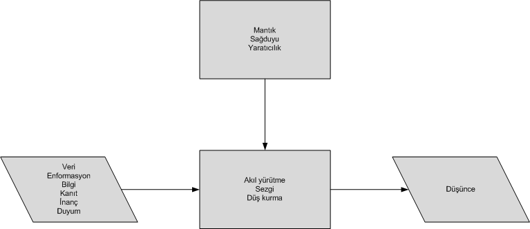 This file depicts the thought process in terms of its inputs, transformation processes, and outputs.